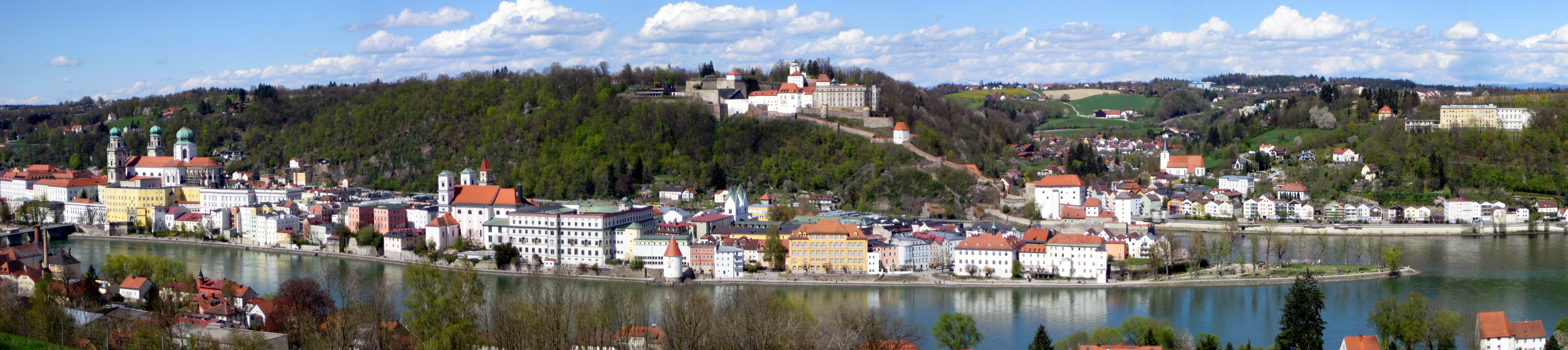 The Old Town of Passau Panorama Stitch